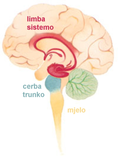 Diagram of the human brain's limbic system, cerebellum, brainstem and spinal cord, labelled in Esperanto. Original US-Governmental